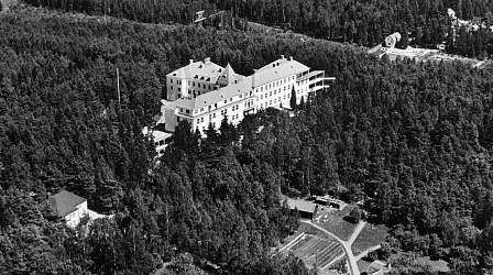 Skogsfjällets Sanatorium in Västerås, Sweden. The sanatorium was build in 1911 and was torn 1945. The sanatorium was situated on the Västerås general hospital premises.